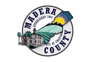 The official flag of Madera County, California, adopted in the late 2000s. It consists of the county seal on a blank, opaque background.